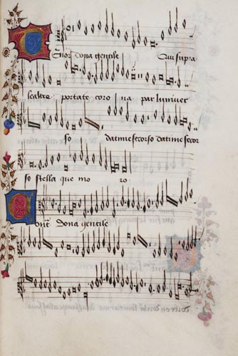 Manuscript prepared for the wedding of Catherine of Aragon, c.1470, with music by Ockeghem and Dufay.